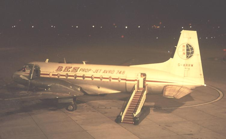 BKS Air Transport Avro 748 (G-ARRW) at Manchester